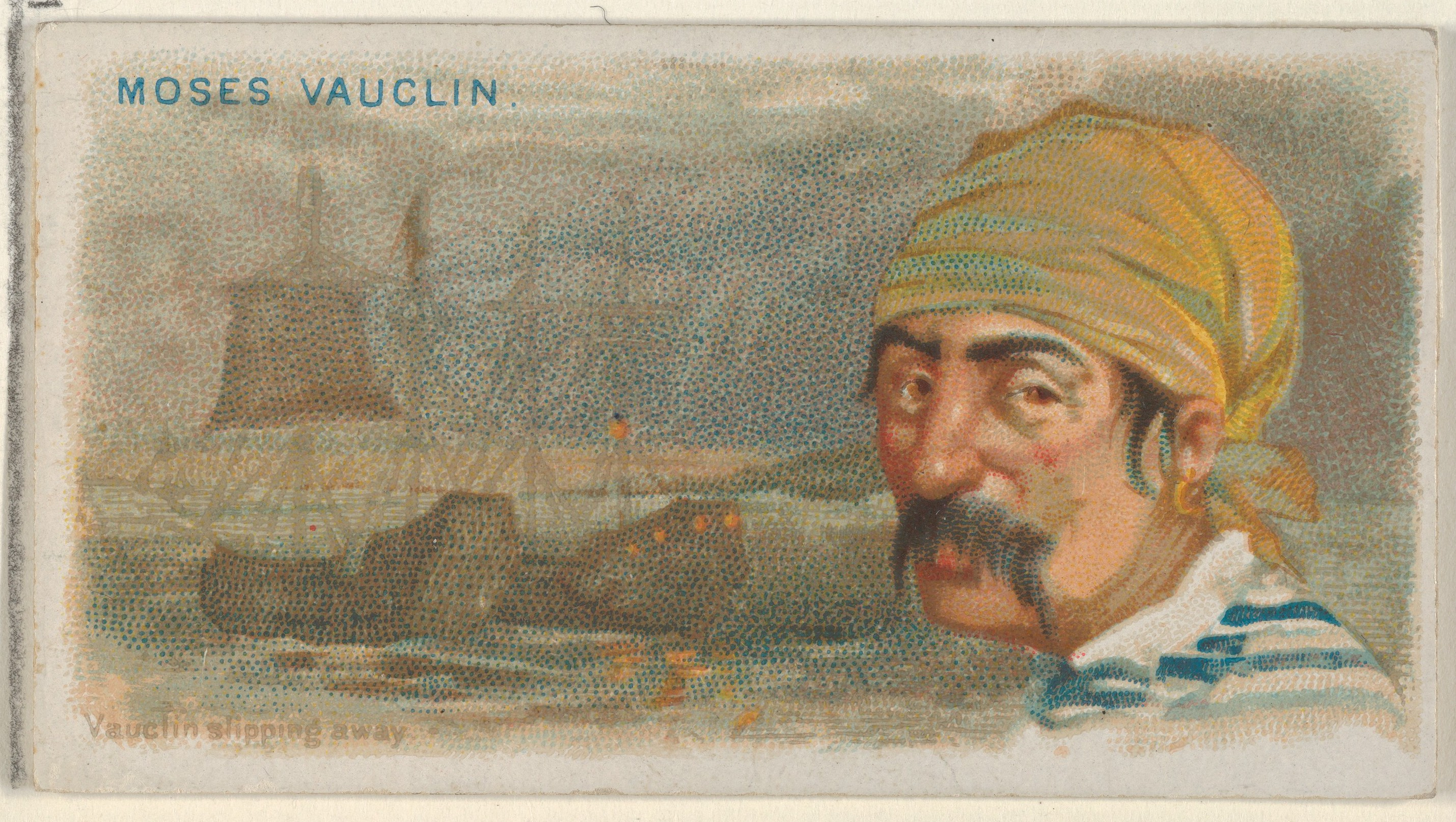 Print; Prints